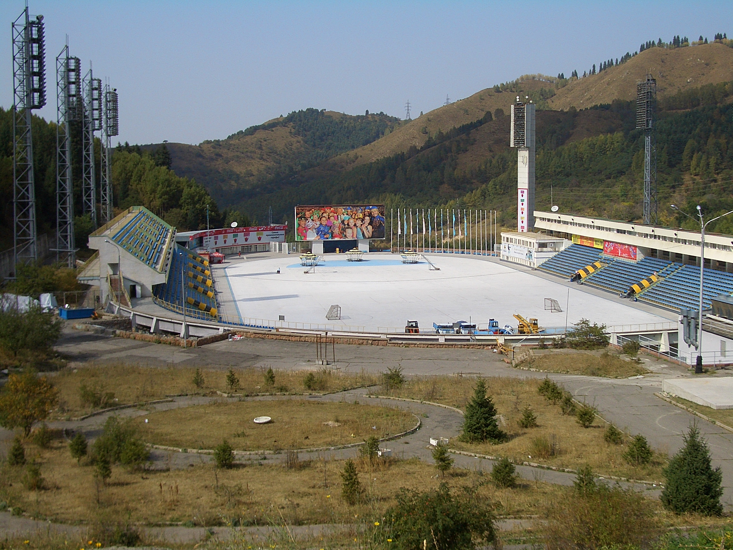 Medeu ice skating rink